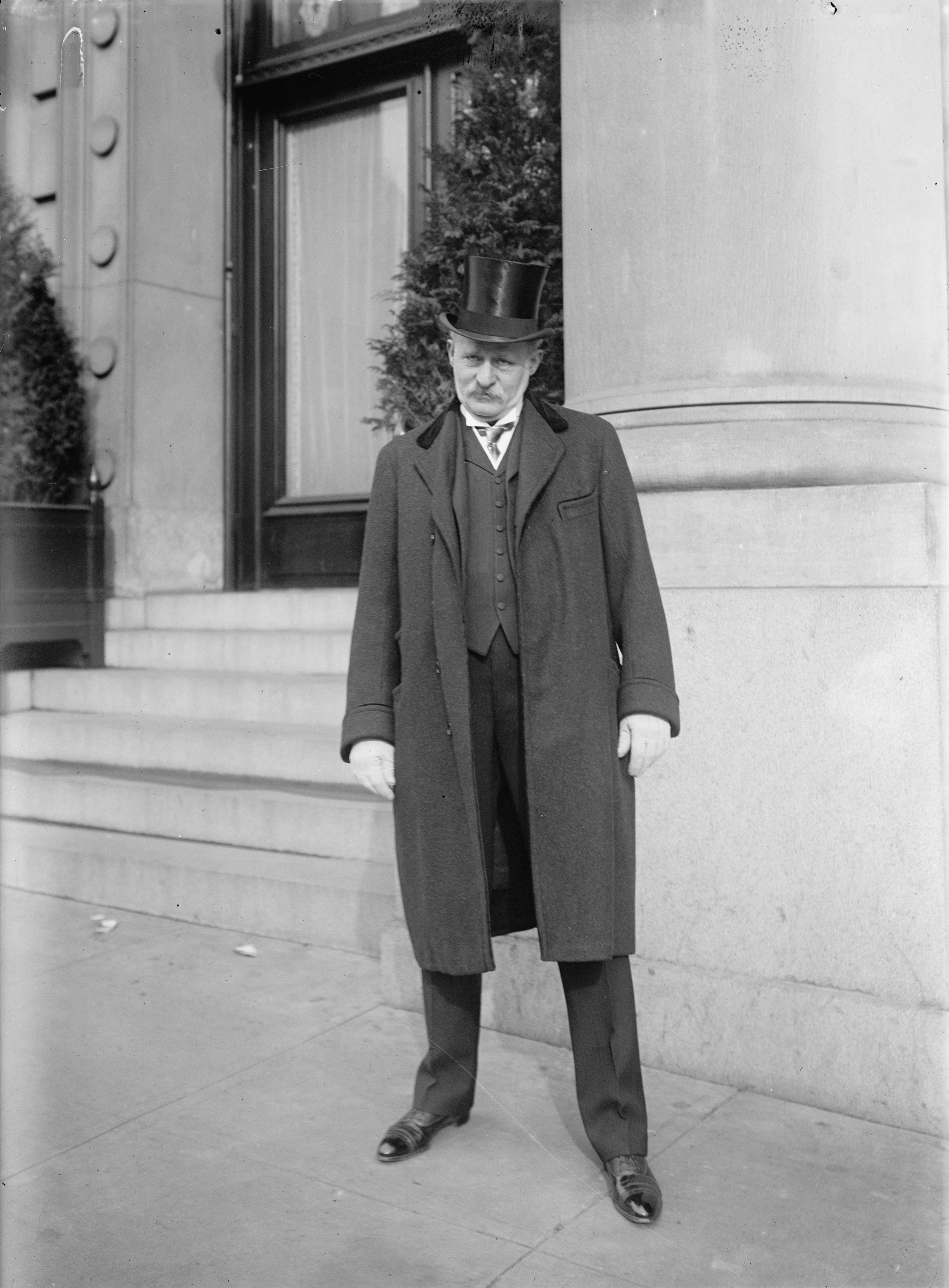 Jefferson Monroe Levy, Congressman from New York.